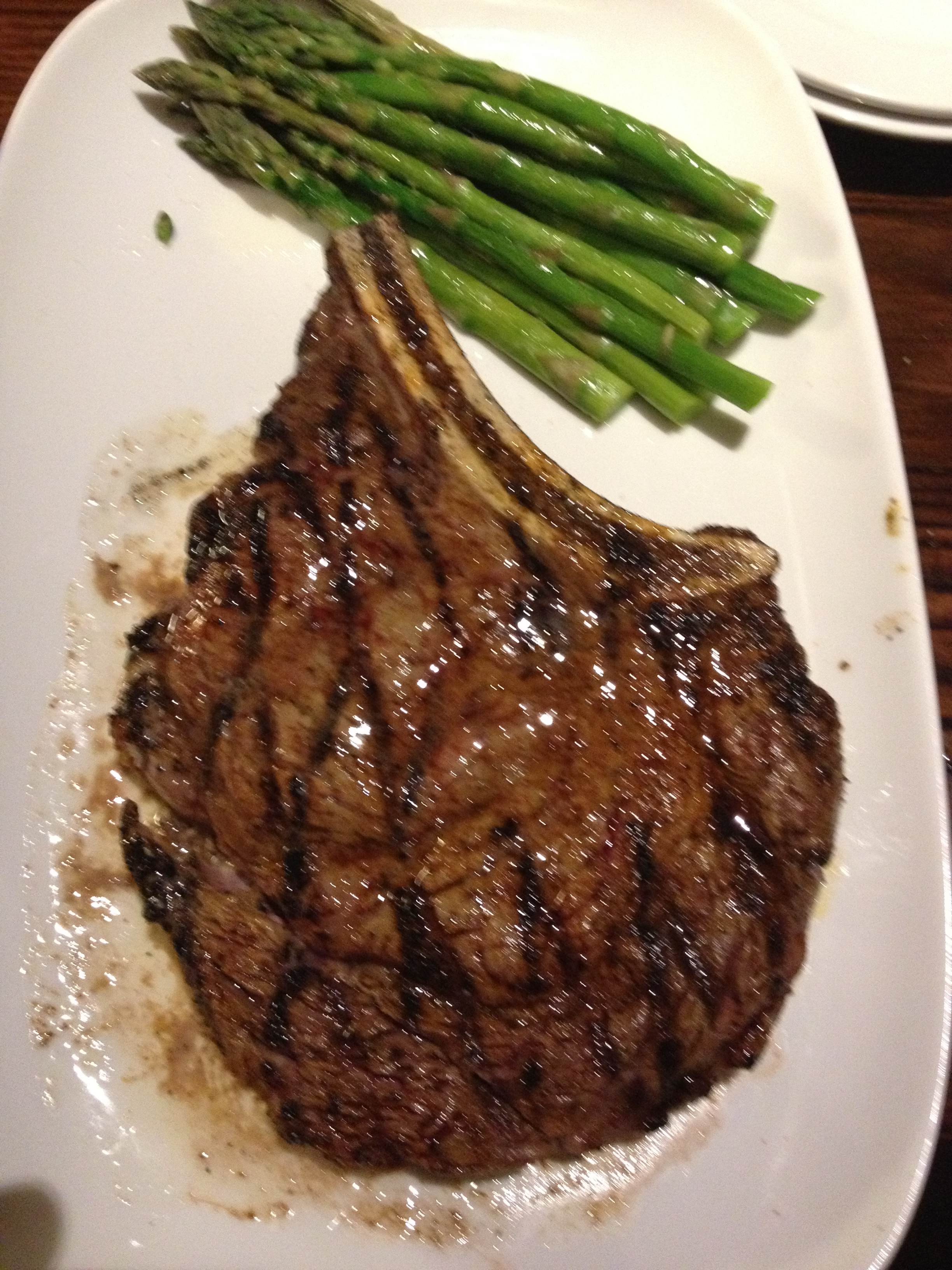 Ribeye steak and asparagus dinner.